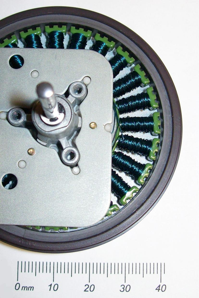 electronically commutated motor / elektronisch kommutierter Motor (Capstan drive of a video recorder)